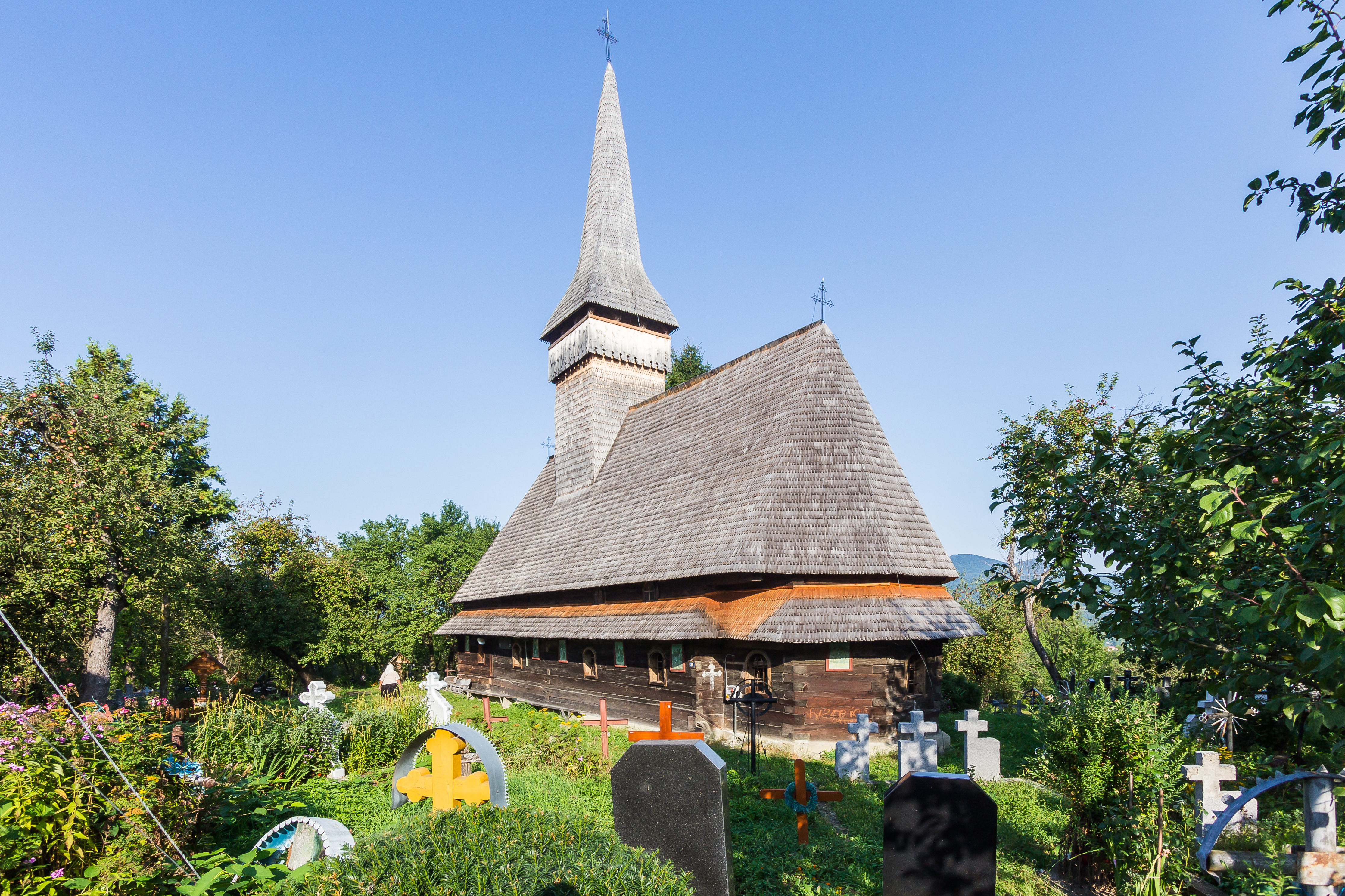 Wooden church in Hoteni, Maramureș, Romania